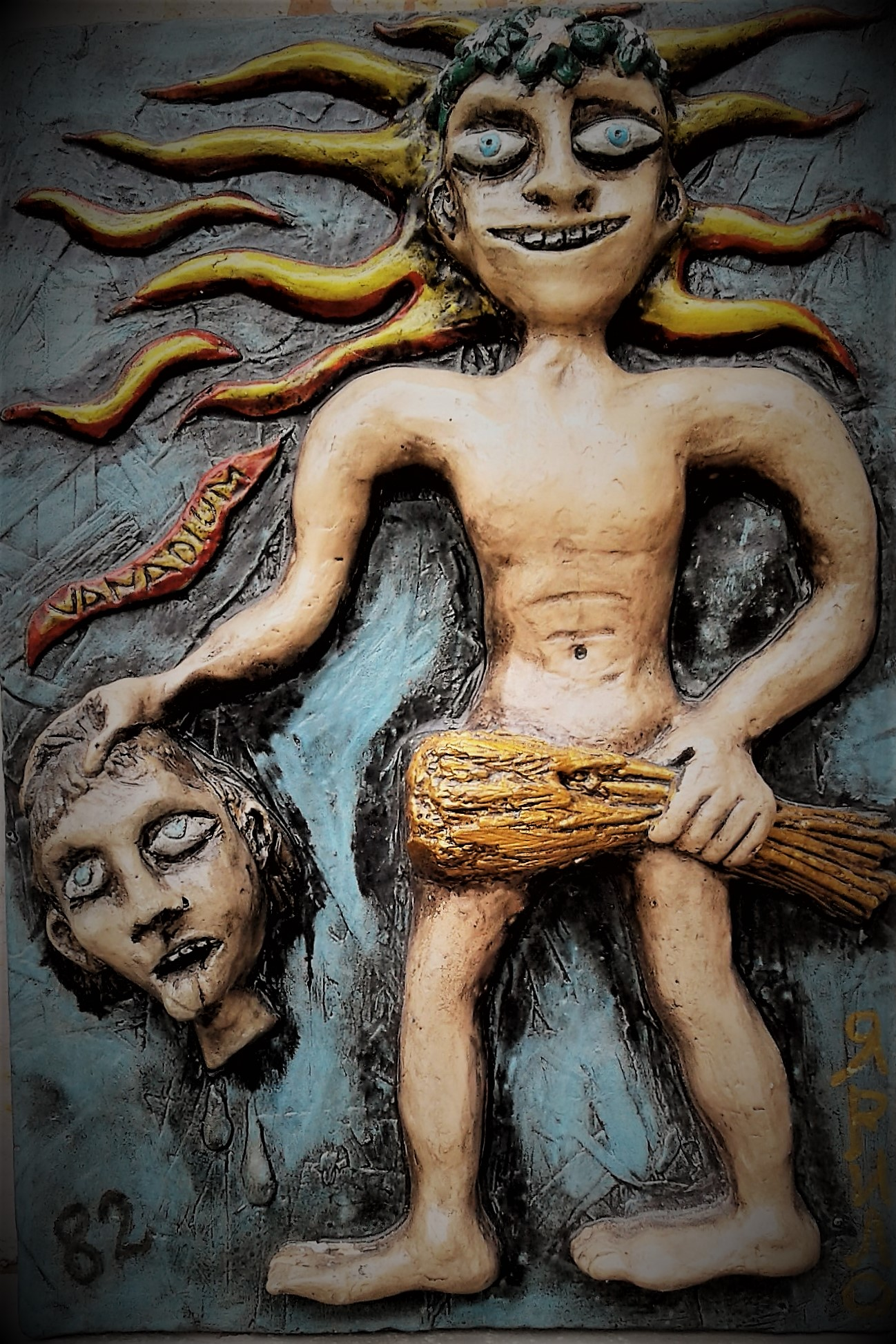 Yarilo. Yarylo